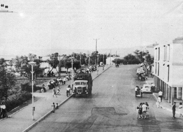 Cities in Israel